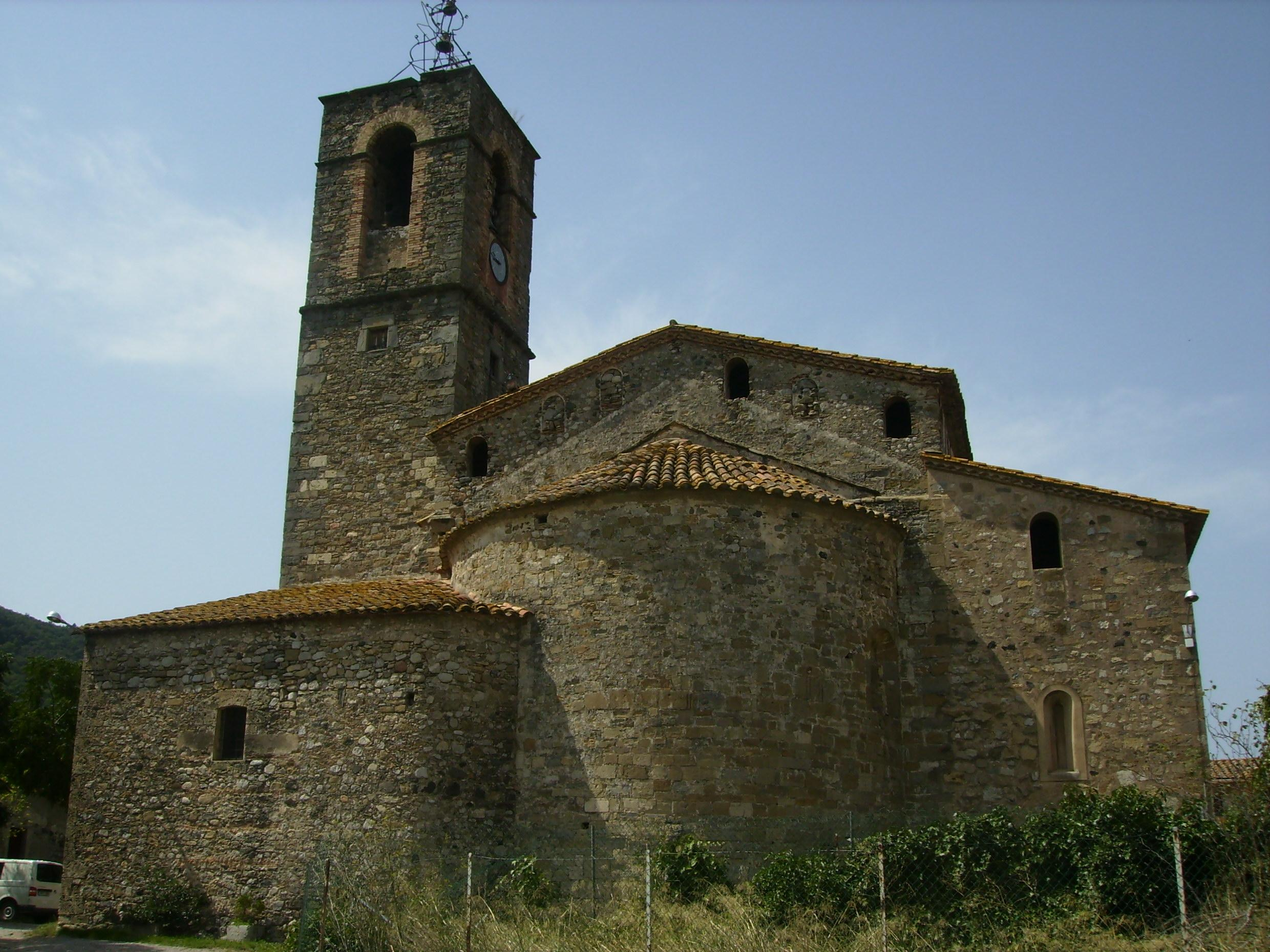 Santa Maria Church in Argelaguer (Catalonia) - Apse and bell tower